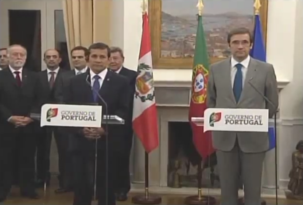 The President of Peru, Ollanta Humala, and the Prime Minister of Portugal, Pedro Passos Coelho, in the São Bento Mansion, in Lisbon, 2012.